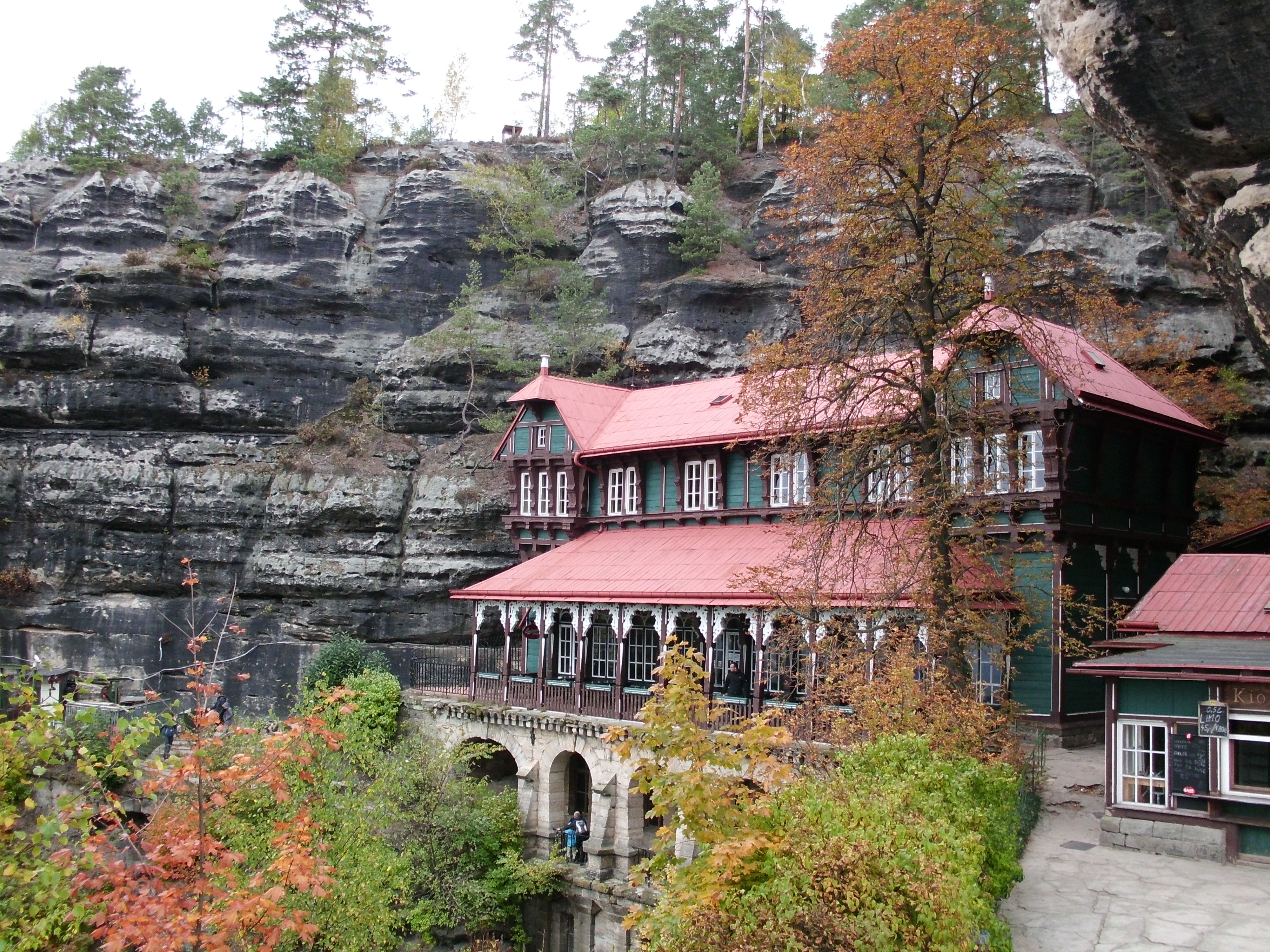 National natural monument Pravčická brána in Děčín District, Czech Republic.